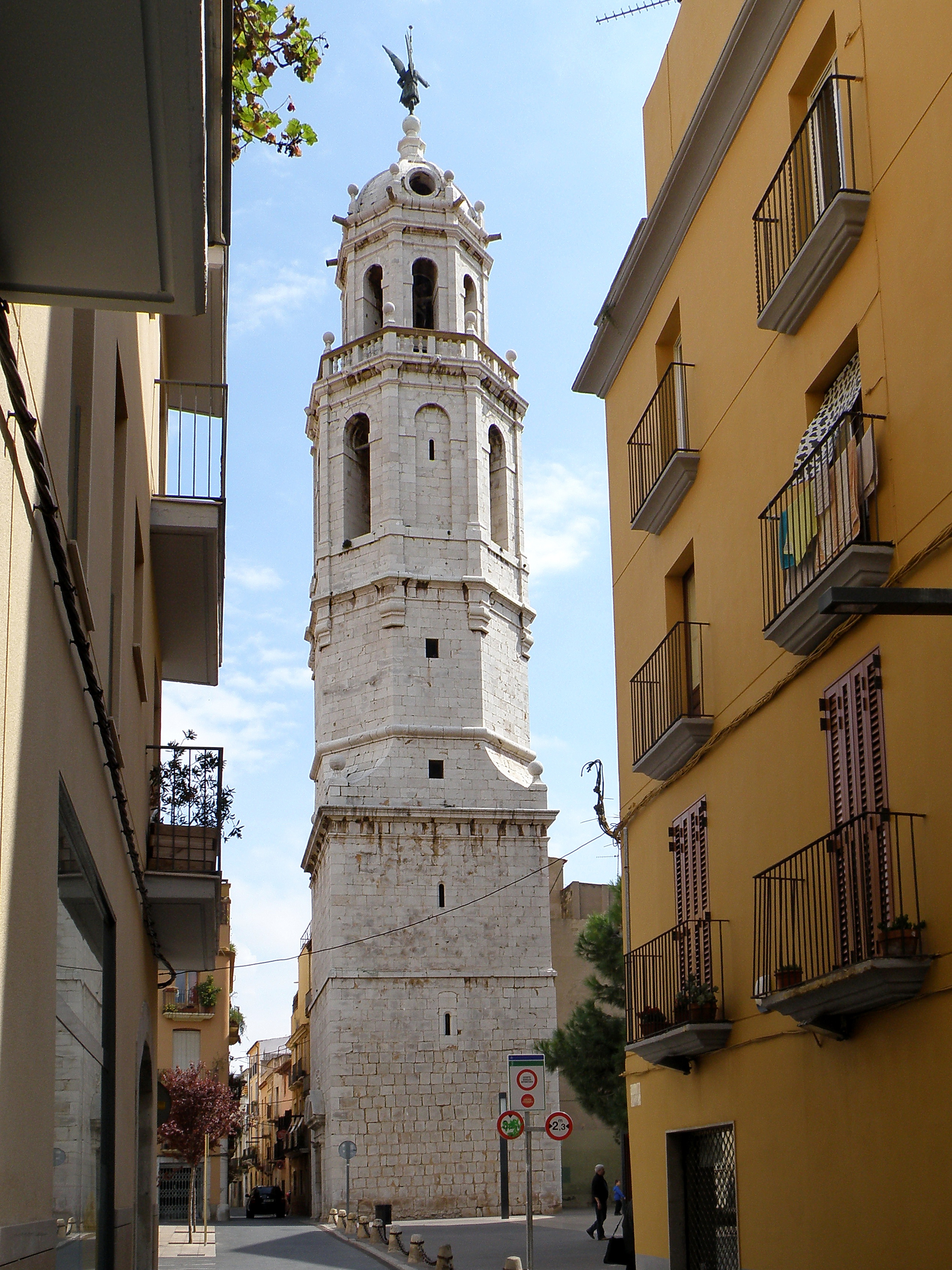 Belltower of St. Antoni church (2) in Vilanova i la Geltrú